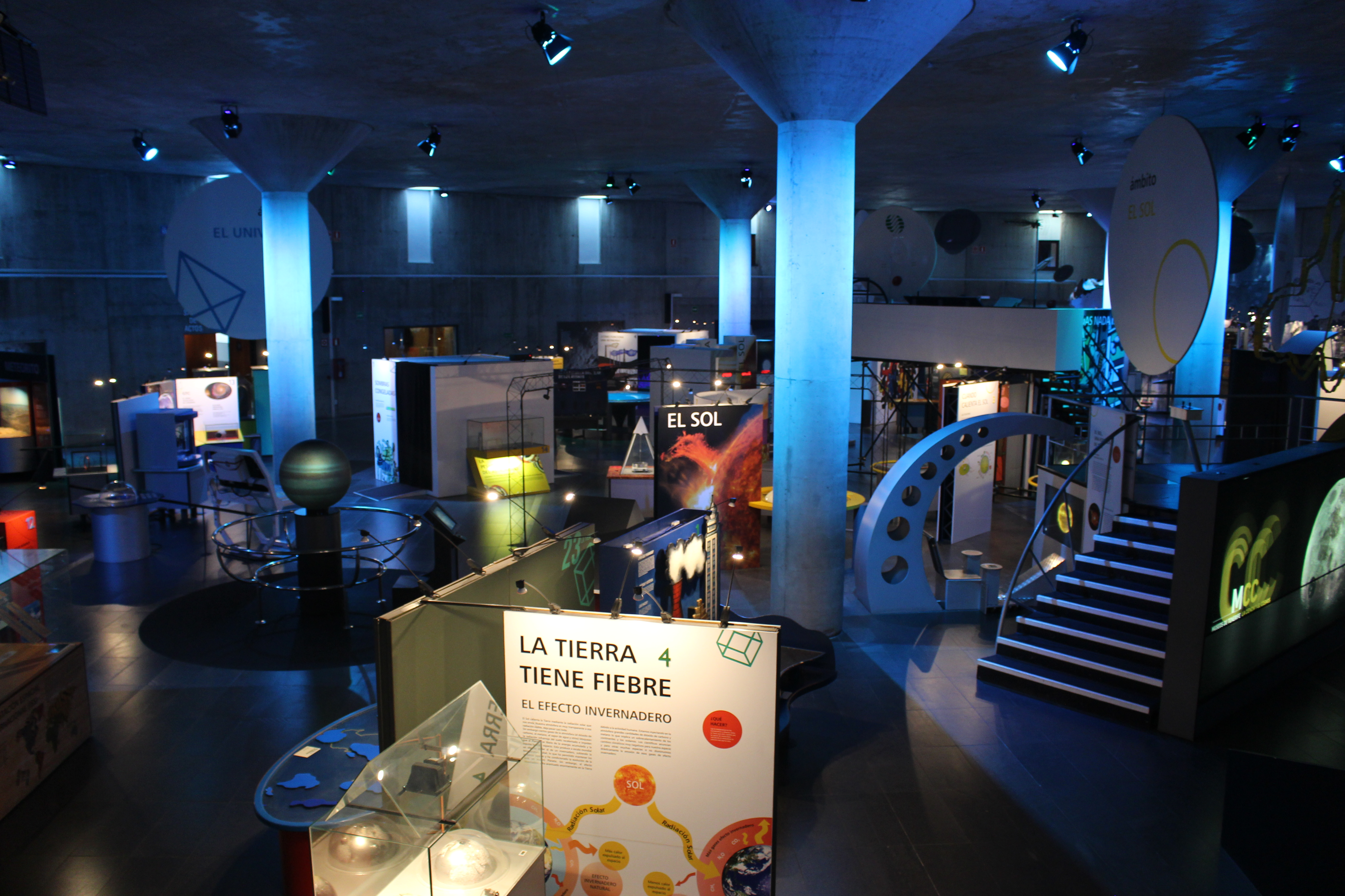 Museo de la Ciencia y El Cosmos